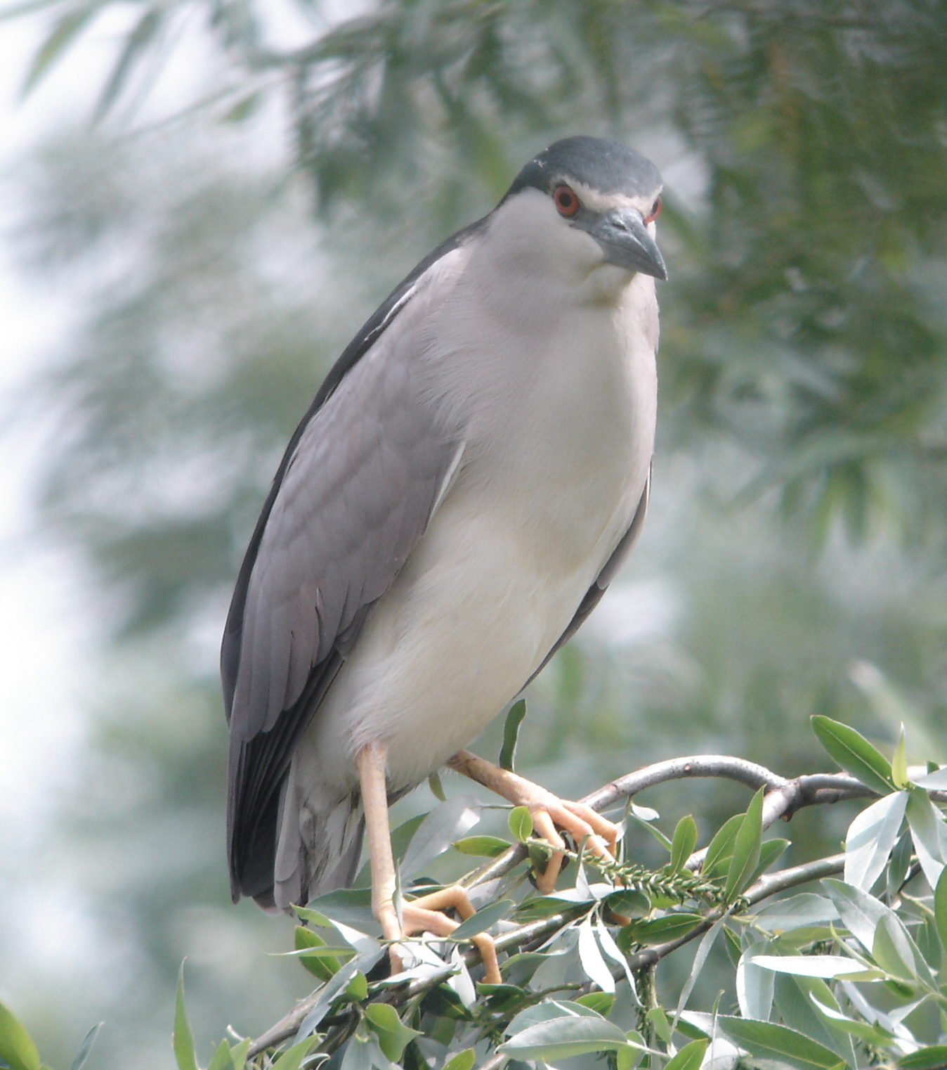 Nycticorax nycticorax (Bihoreau gris), somewhere in Europe.